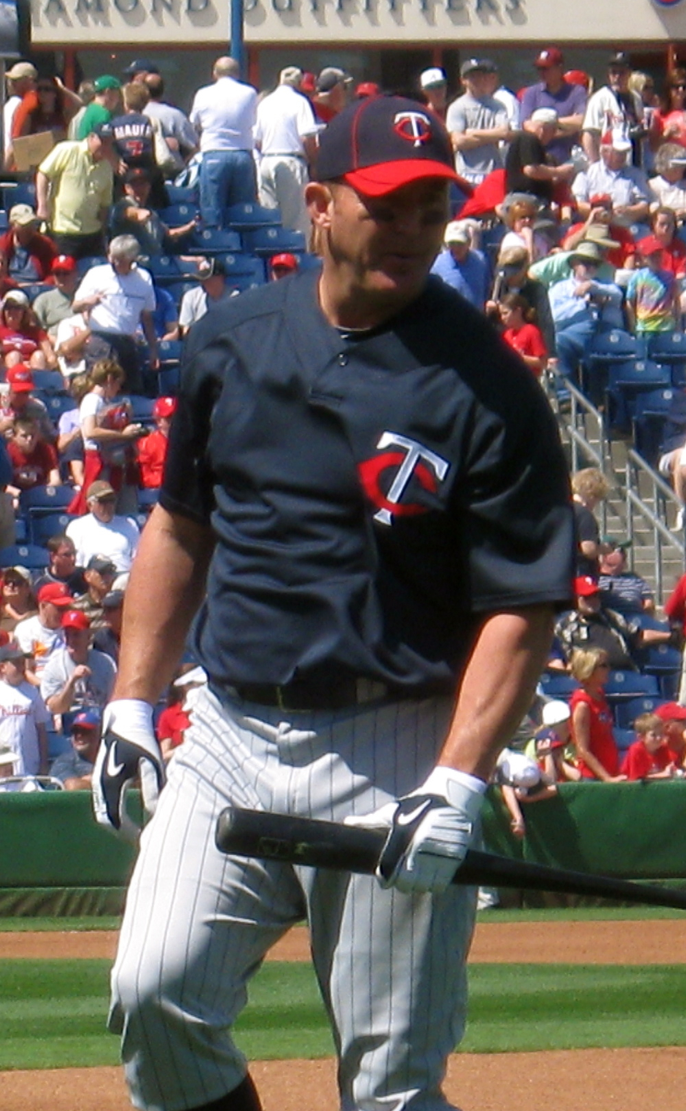 Jim Thome